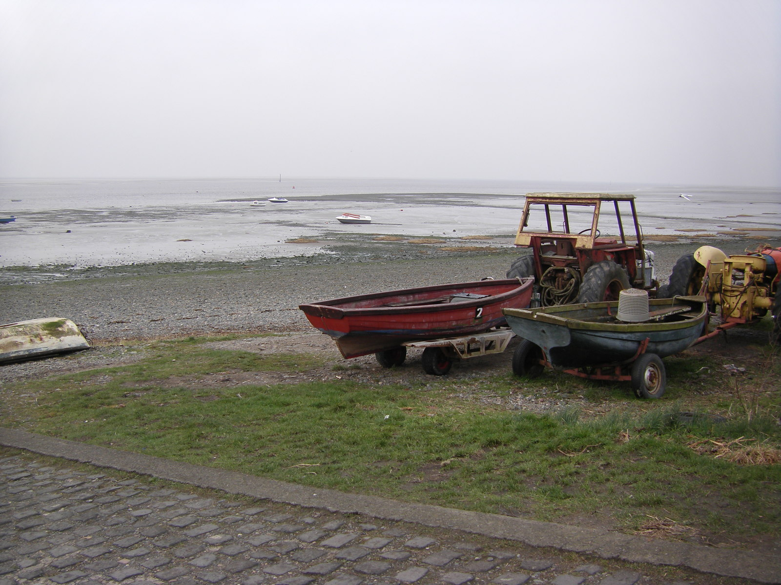 Shrimp Boats, Church Scar, Lytham